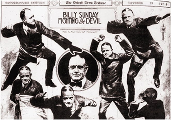 Billy Sunday